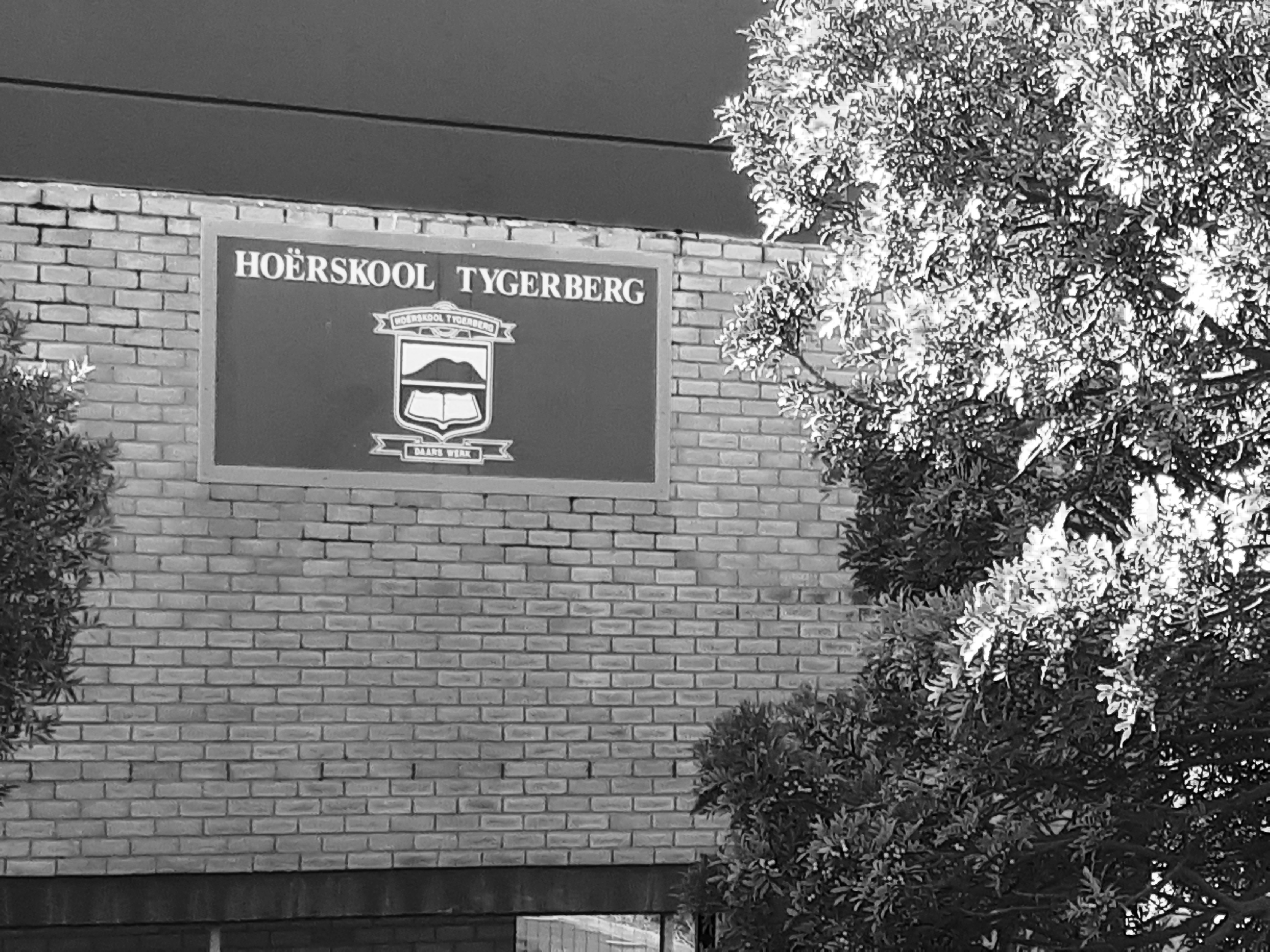 Tygerberg High School 2018